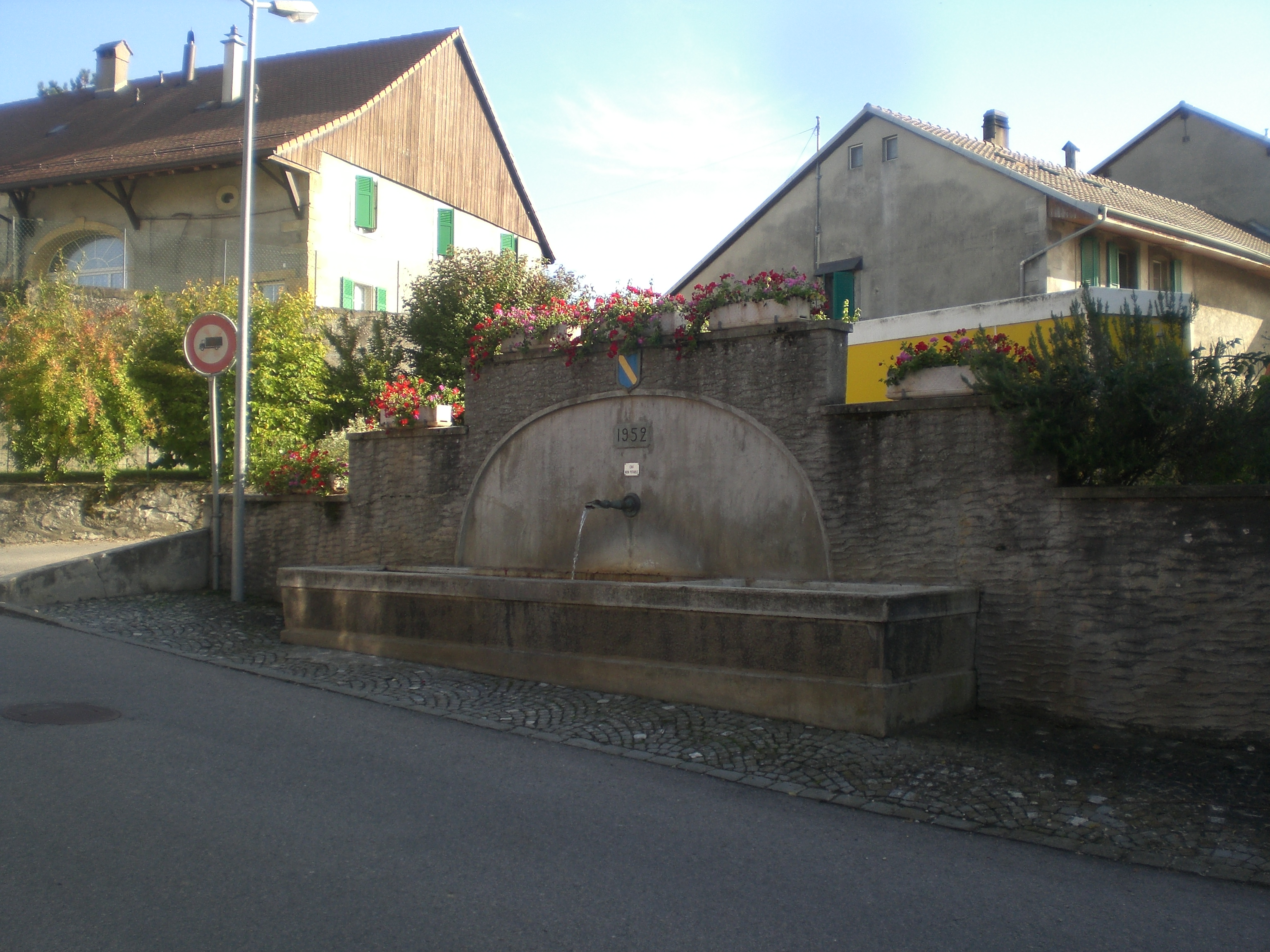 Fountain in Bournens, canton of Vaud, Switzerland